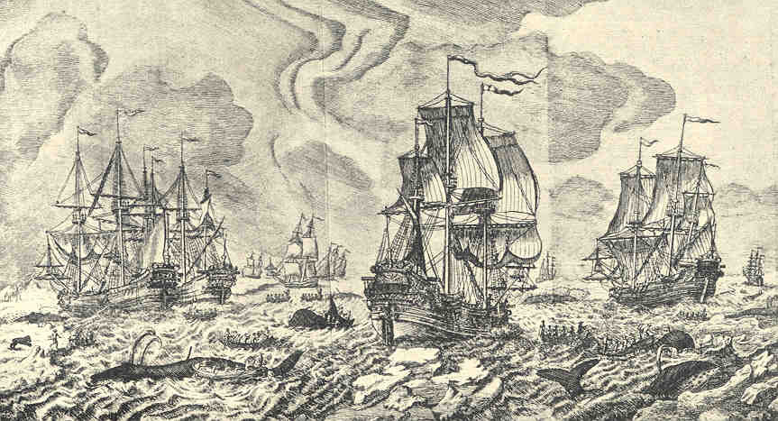 Northern Whale Fishery (Zorgdrager, 1720) Subject: Whaling ships Tag: Vessels